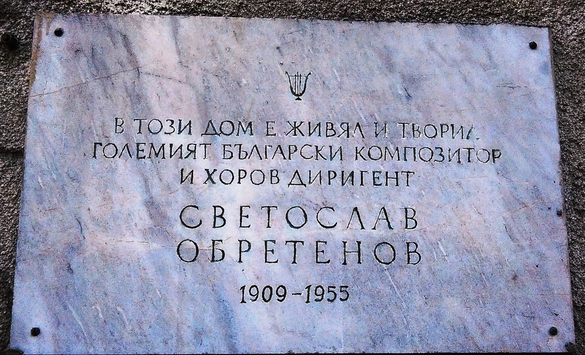 A memorial plaque in front of the residence of the Bulgarian composer Svetoslav Obretenov in Varna